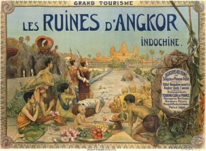 Poster on Angkor ruins, 1911